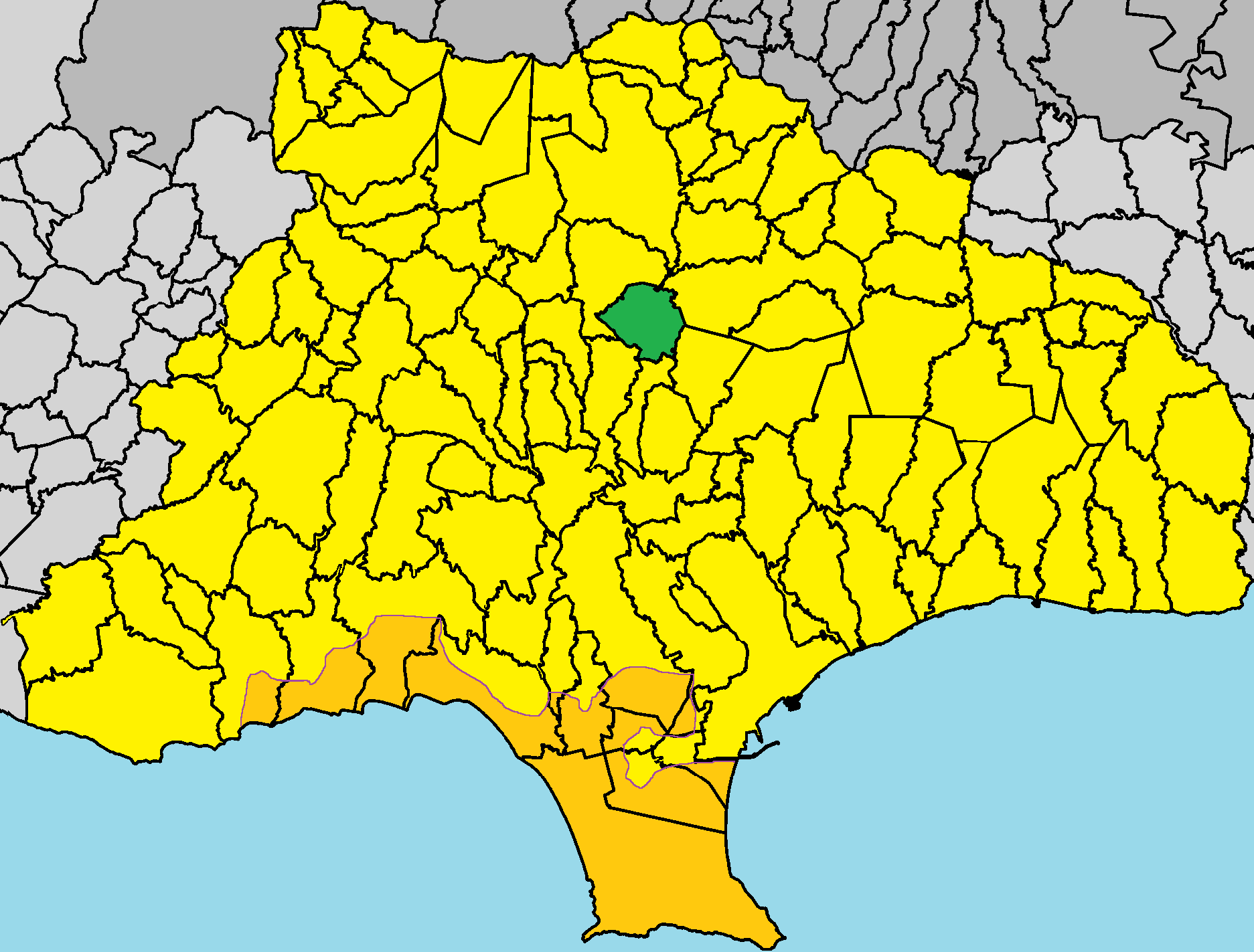 Kapilio in Limassol District.